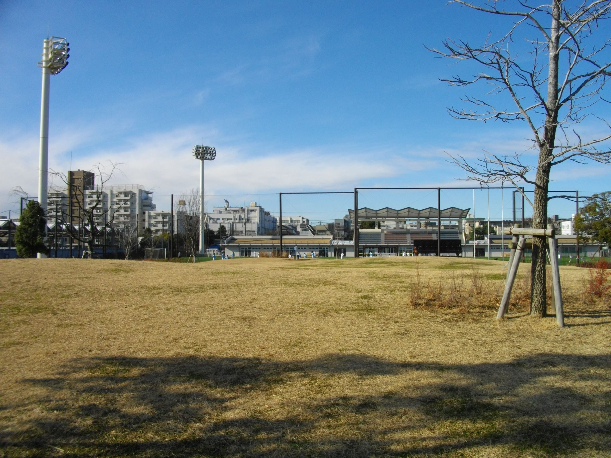 Akabane Sports-no-Mori Park